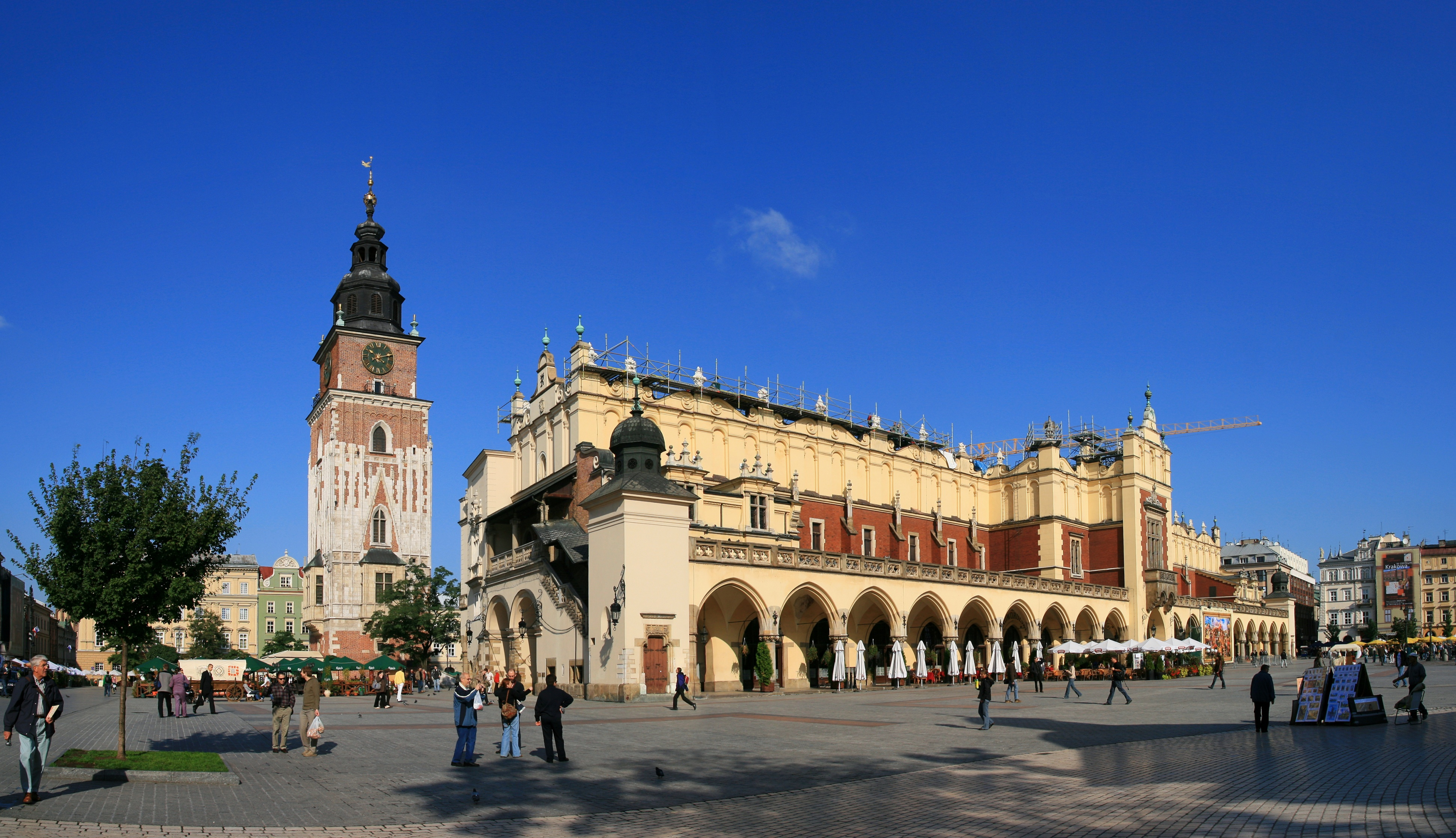 Cloth Hall (Sukiennice) in Kraków (Poland).